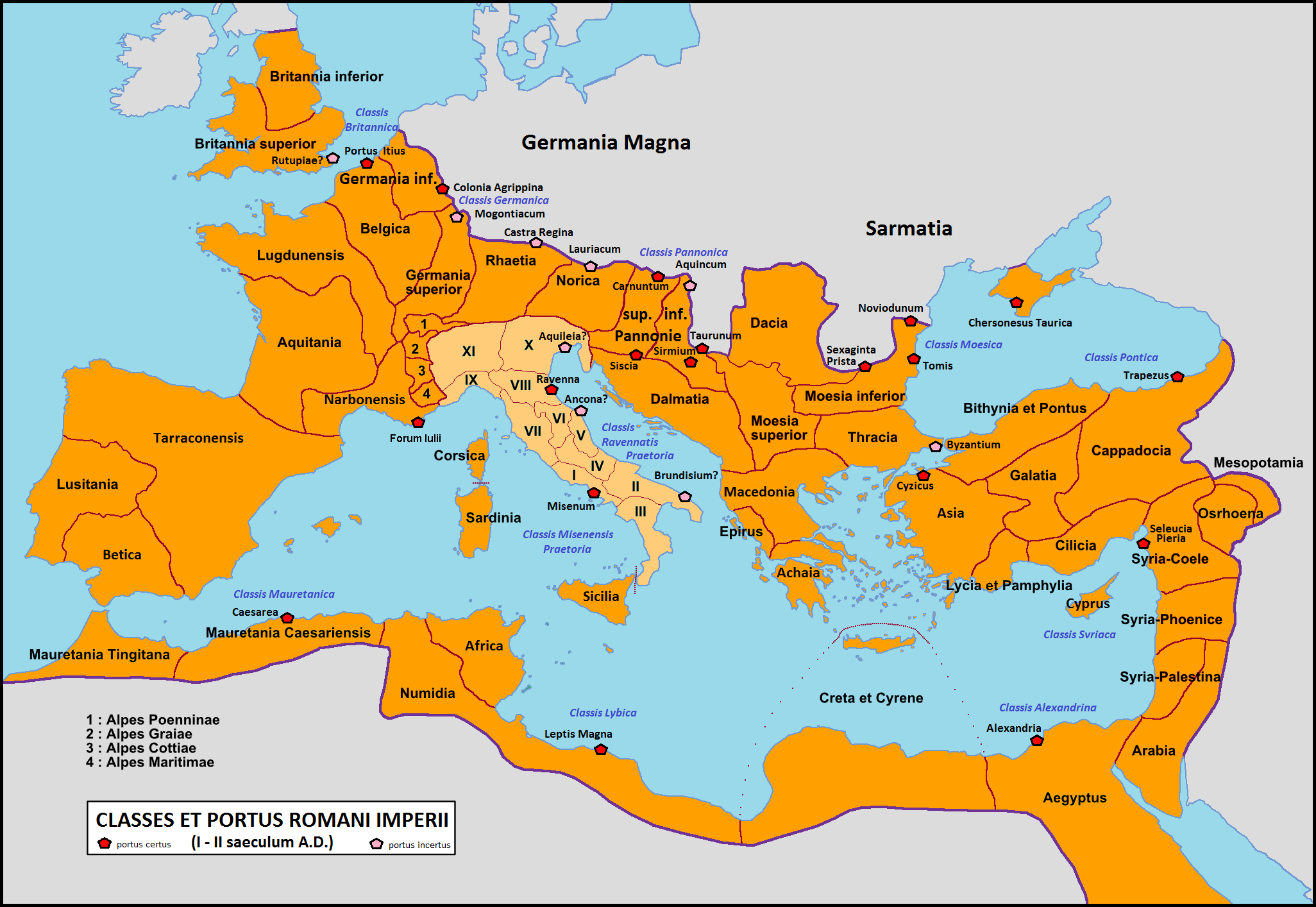 Map of the Roman Empire with main harbors and fleets from Augustus to Septimius Severus